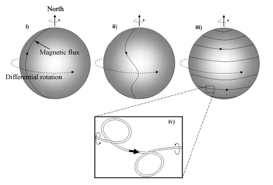 Differential rotation of the Sun. The undisturbed, bipolar magnetic field configuration during solar minimum marks the start of the solar cycle (i). The faster rotation at the solar equator then drags the magnetic field around the solar body (ii) until the Sun approaches solar maximum where the buoyant magnetic flux is twisted to such an extent flares and highly dynamic coronal loops become commonplace across the Sun’s surface (iii and iv). The buoyancy force governing the upward motion of coronal loops can be written as pi+B2/8π=pe, where pi is the internal pressure of the flux, pe is the external pressure and B is the magnetic field strength.